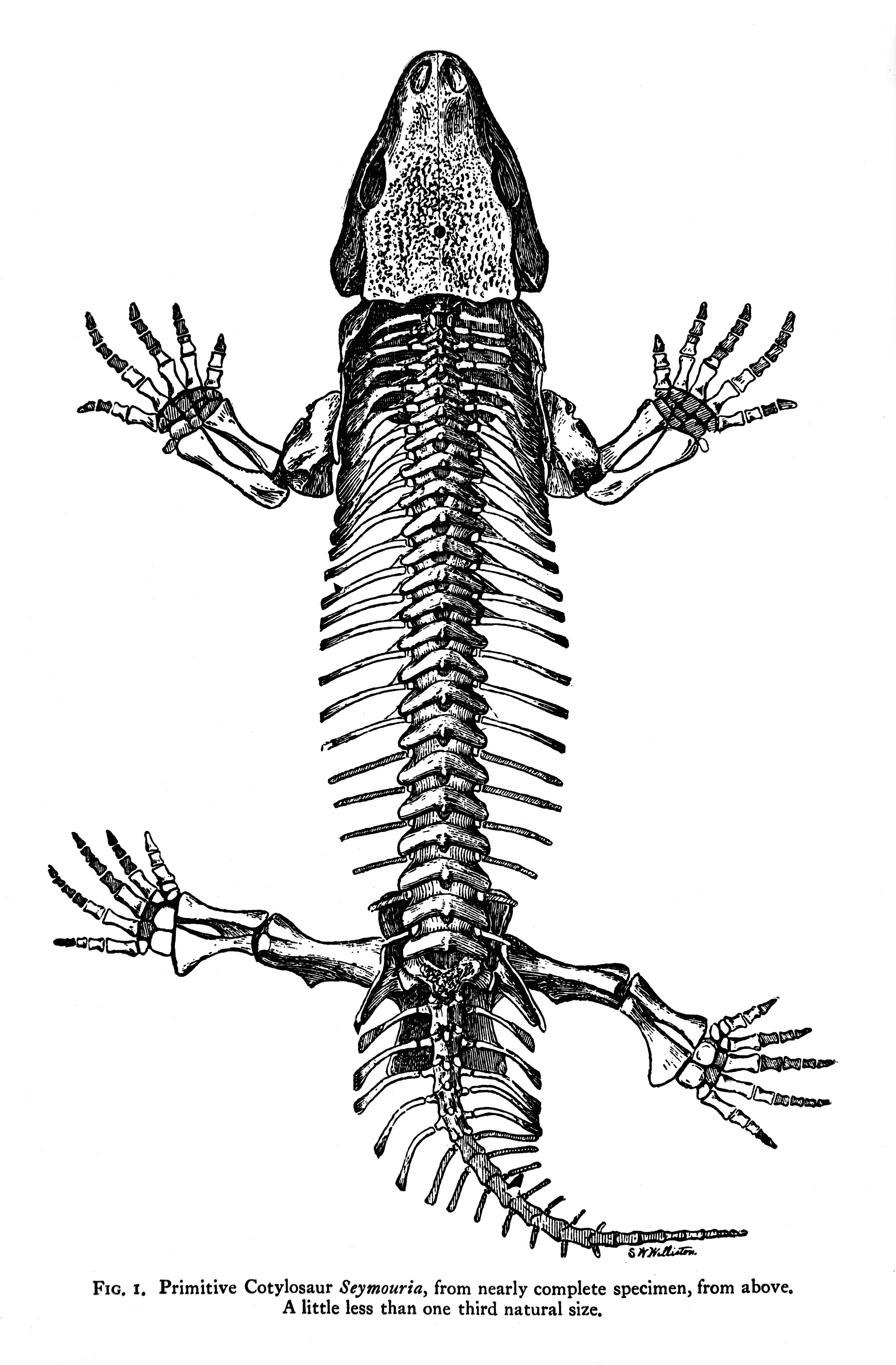 Primitive Cotylosaur Seymouria. Wellcome Images Keywords: Reptiles